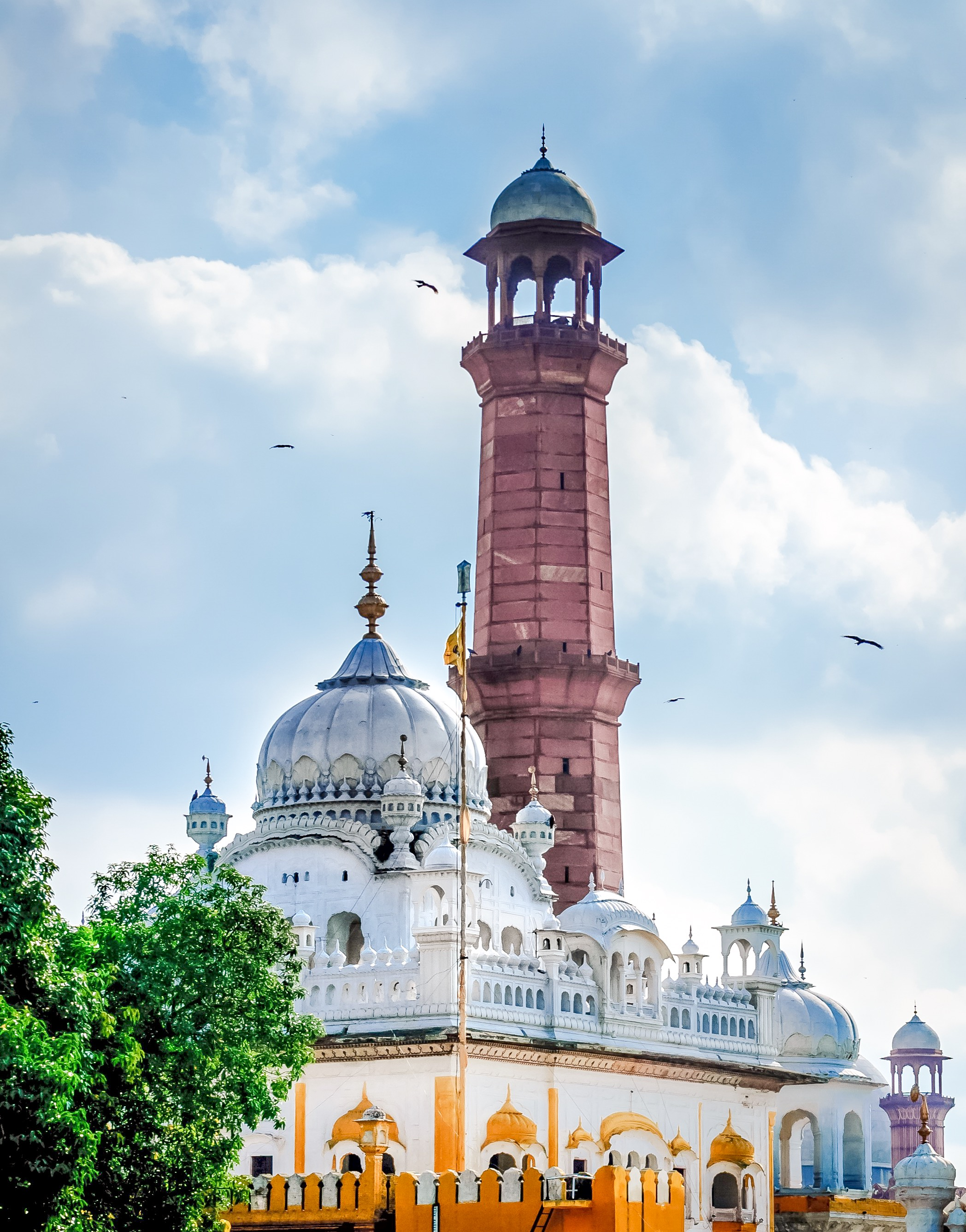 Samadhi of Ranjit Singh This is a photo of a monument in Pakistan identified as the PB-79